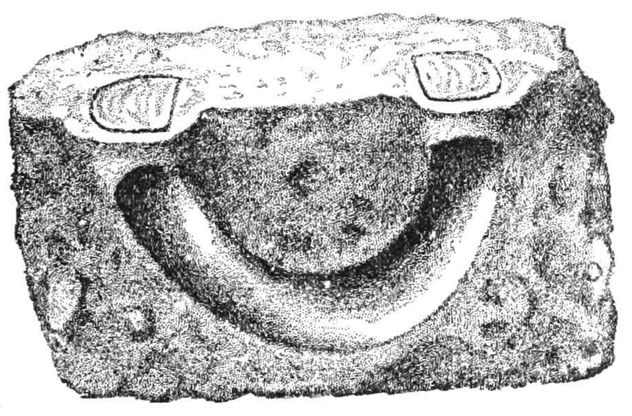 Section view of the curved burrow of Stothis astuta (now Trichopelma astutum)